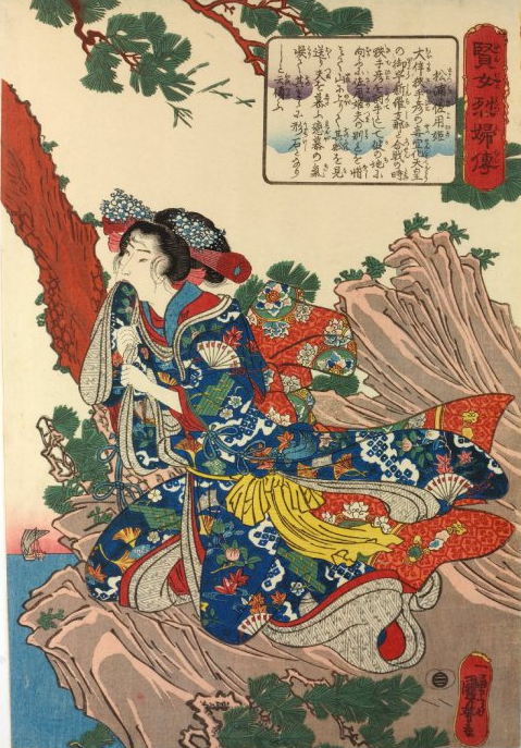 Matsu-ura Sayo-hime 松裏佐用姫 (Princess Sayo at Matsu-ura), from the Kenjo reppu den 賢女烈婦傳 (Biographies of Wise Women and Virtuous Wives)